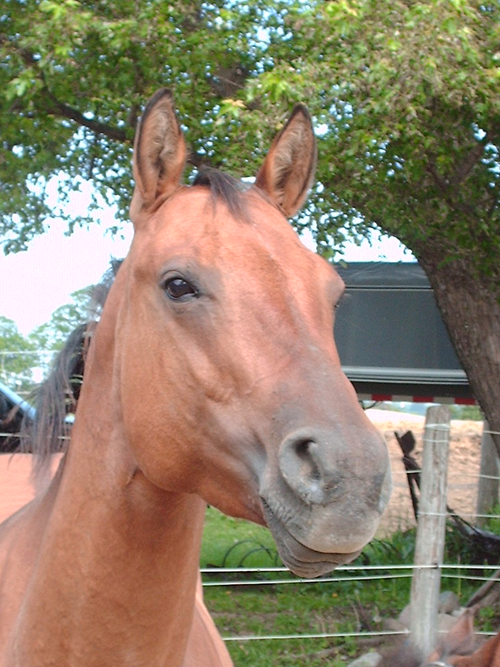 Quarter horse. My brother was flying a kite. Cricket was NOT impressed.